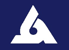 Flag of Murayama Yamagata